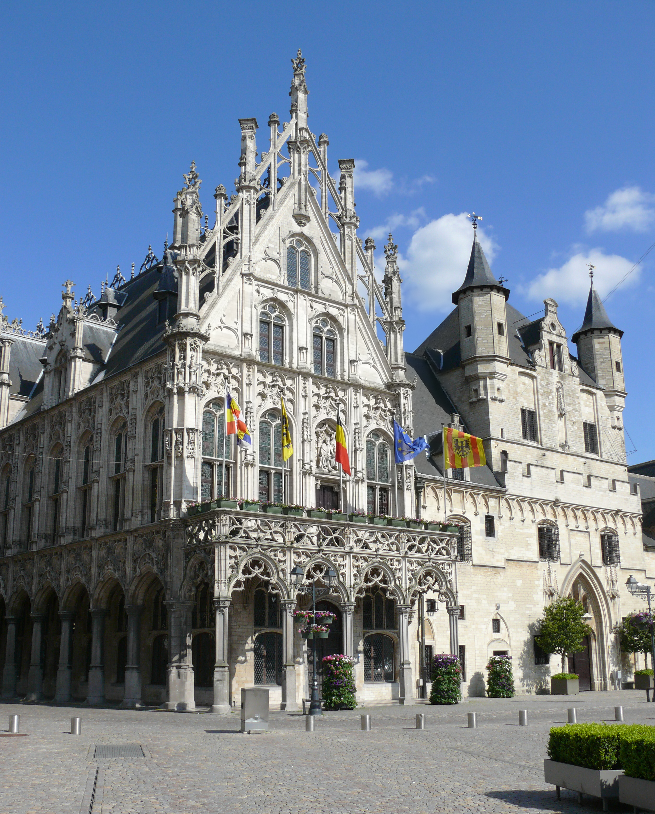 Palace of the Great Council of Mechlin, now part of the City Hall. It was built in 1526 by Rombout II Keldermans. It was however never finished. In 1900-1911 it was finished by the architects Van Boxmeer and Langerock othe basis of the original drawings. The belfry is a fourteenth century gothic building, with several 17th century baroque elements. In 1526 the north side was demolished to build the Palace.